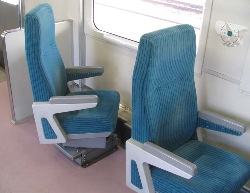 Interior view of JR East KiHa 110-200 series DMU car KiHa 110-243 on a Rikuu West Line service, showing rotating seats, taken at Sakata Station